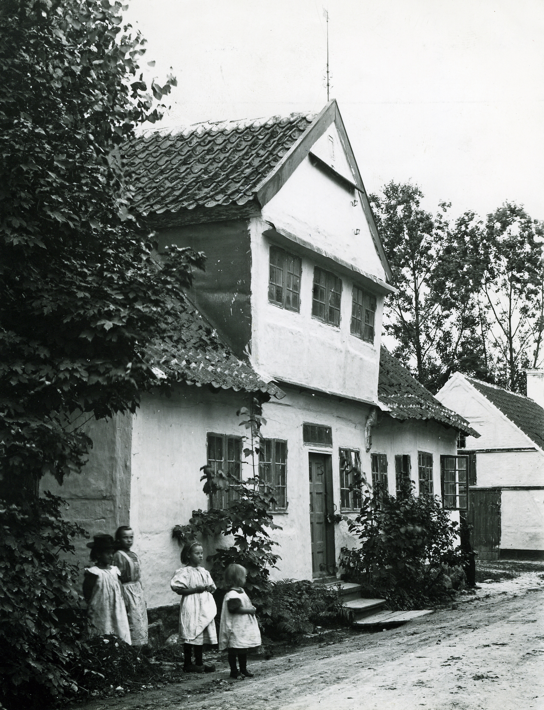 The Kildehuset in Roskilde photographed in 1899 (built 1740, demolished 1920).